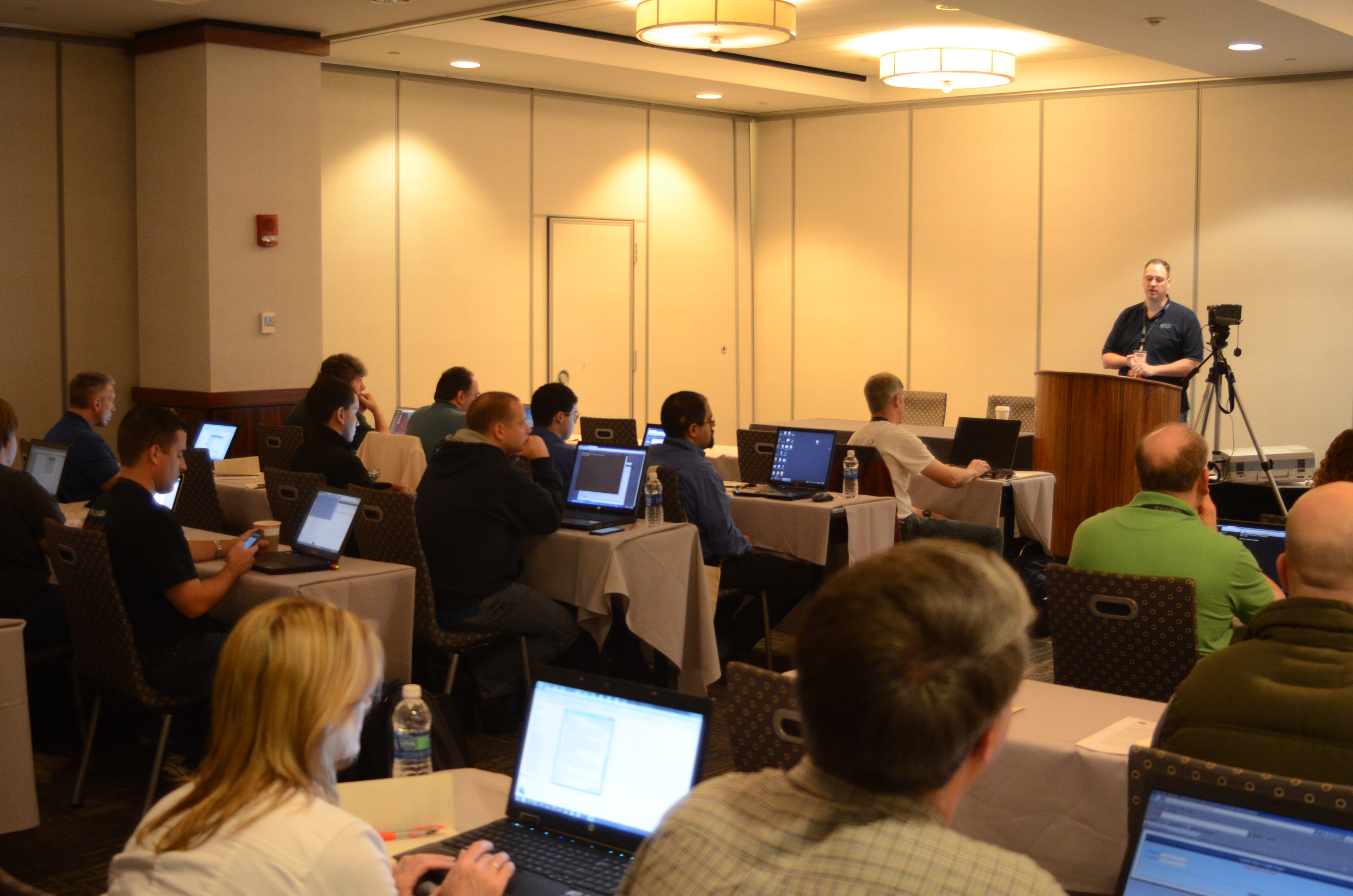 System Administrators attend a training class at a LOPSA conference.